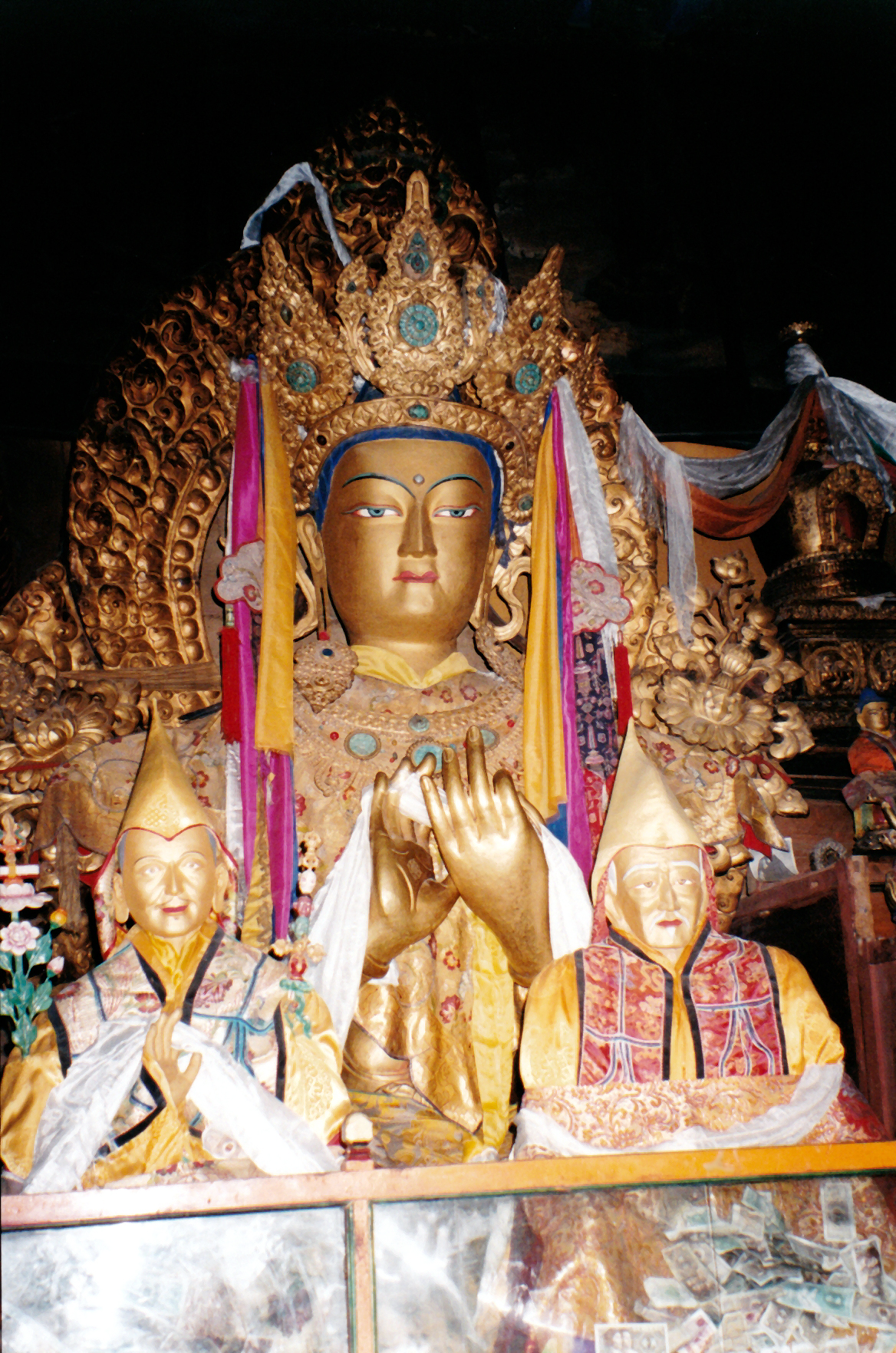 Gilt images of a bodhisattva and lamas. Sera Monastery, Lhasa, Tibet The two lamas wear the typical yellow hats that have given the Gelug sect its popular name.